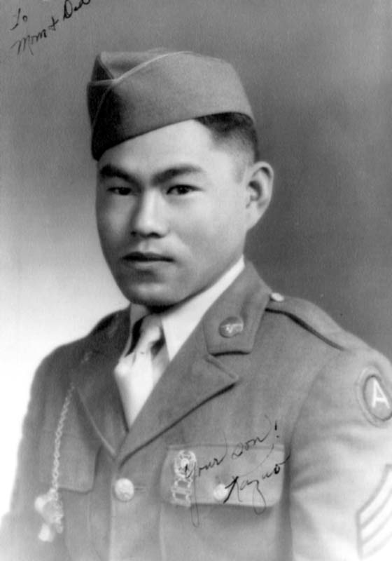 United States Army Staff Sergeant Kazuo Otani was awarded the Medal of Honor for his actions during World War II